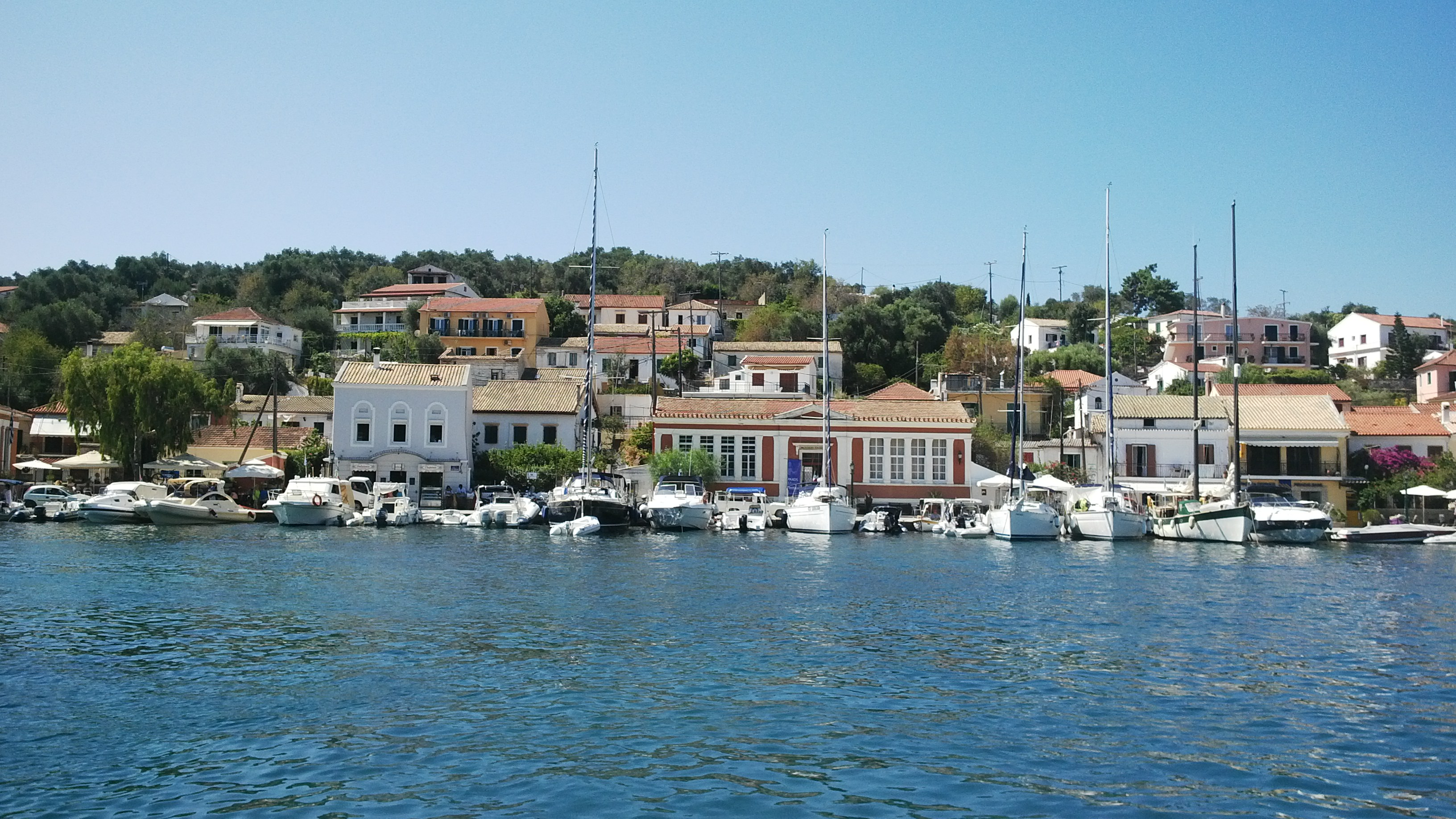 Paxos Museum, building in the centre of the photograph (Gaios, Paxoi)